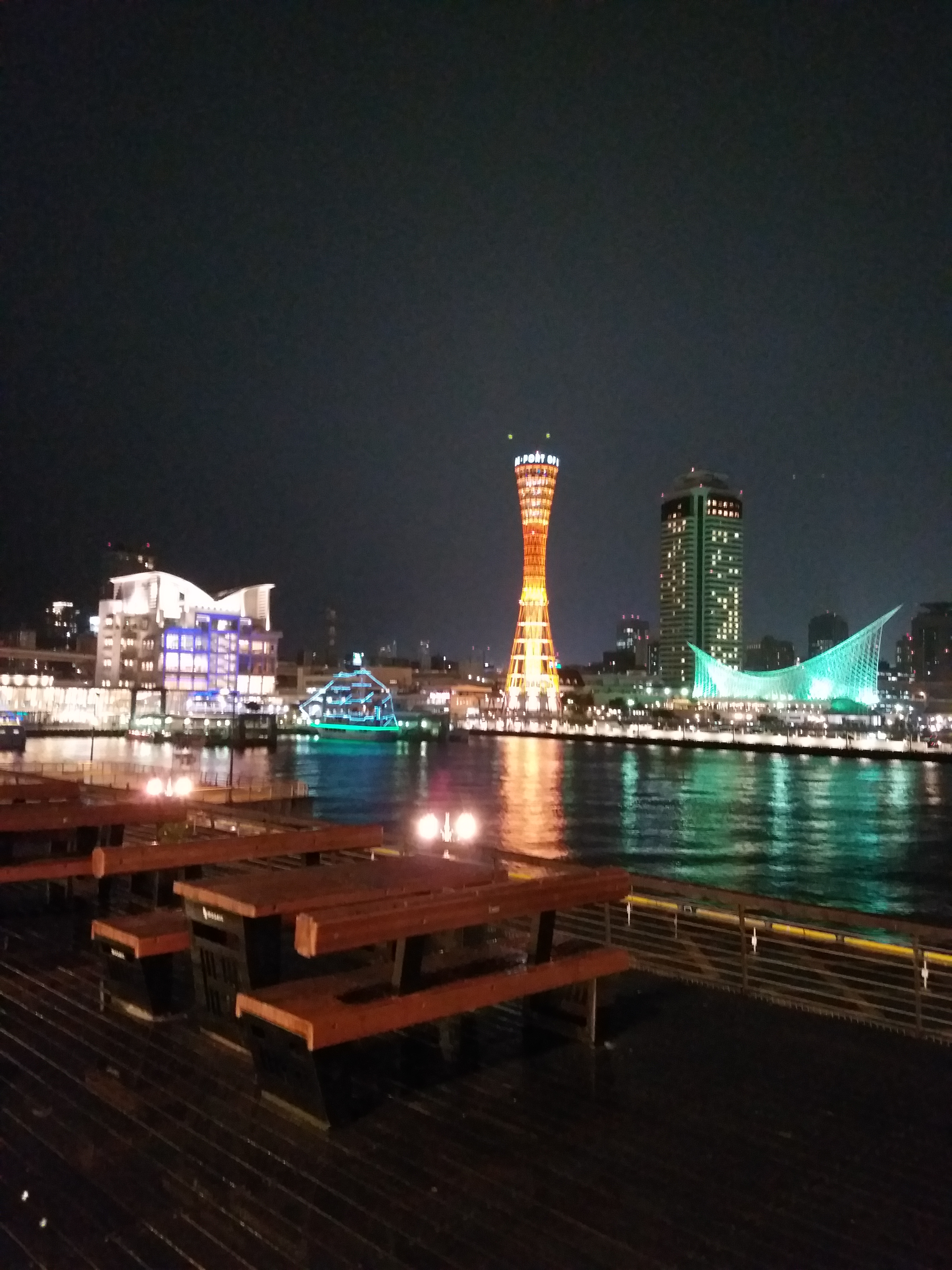 Kobe Port Tower at night